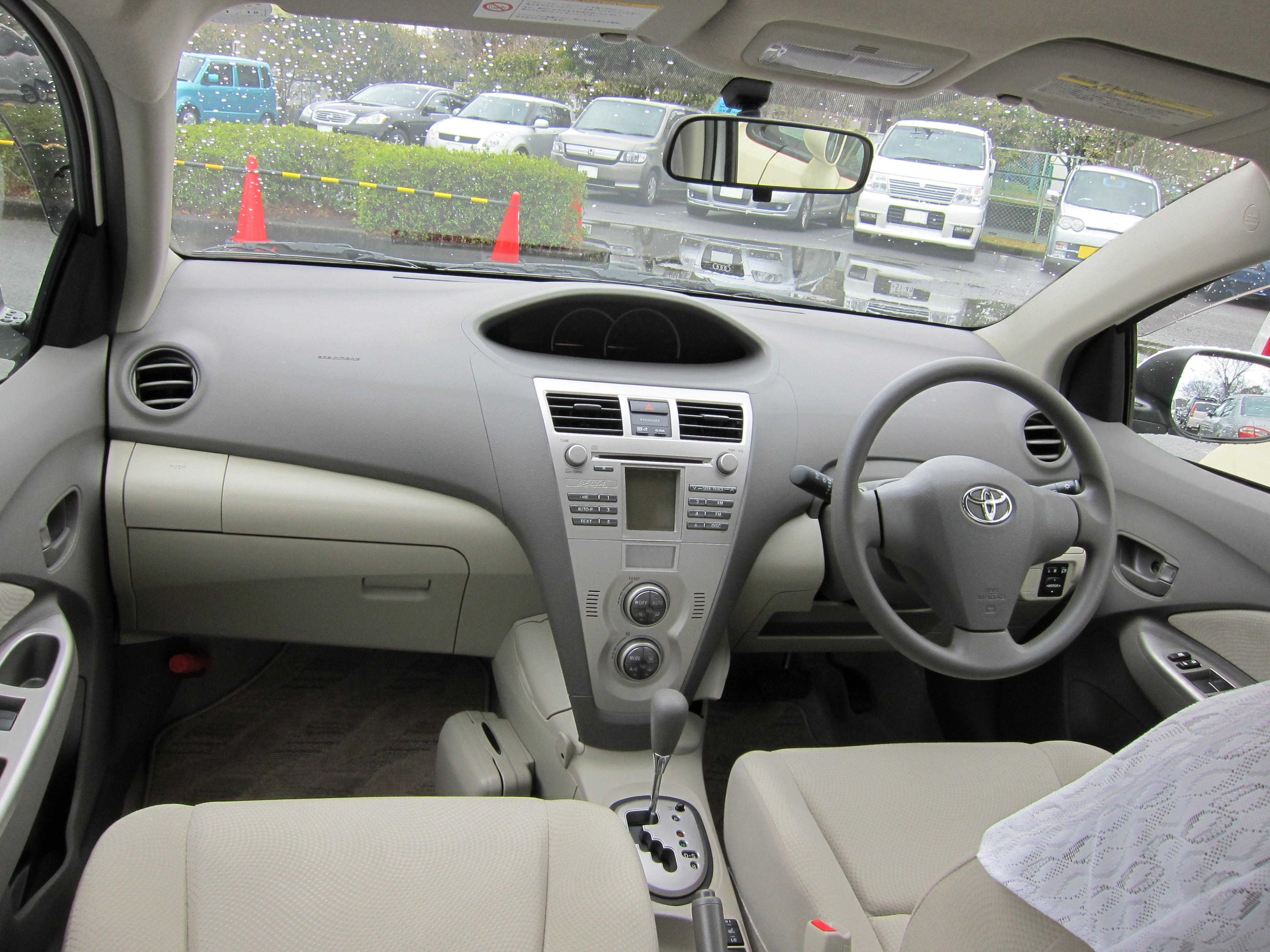 2010 Toyota Belta 1.3 X “L Package”